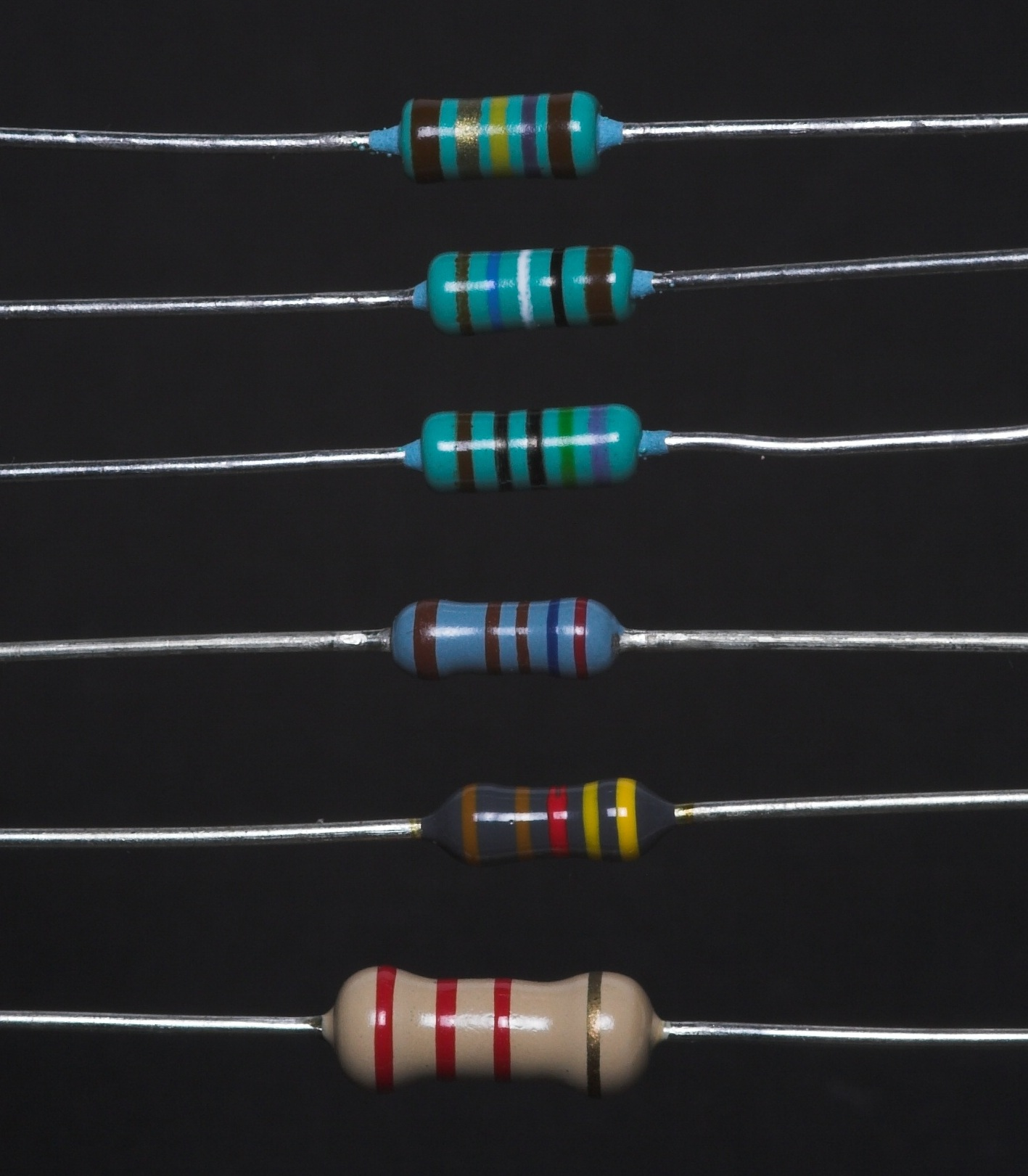 different resistors